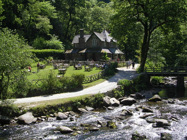 Watersmeet House Where the valleys of Hoar Oak Water and the East Lyn river come together sits Watersmeet House, a 19th-century fishing lodge, now a National Trust tea room.